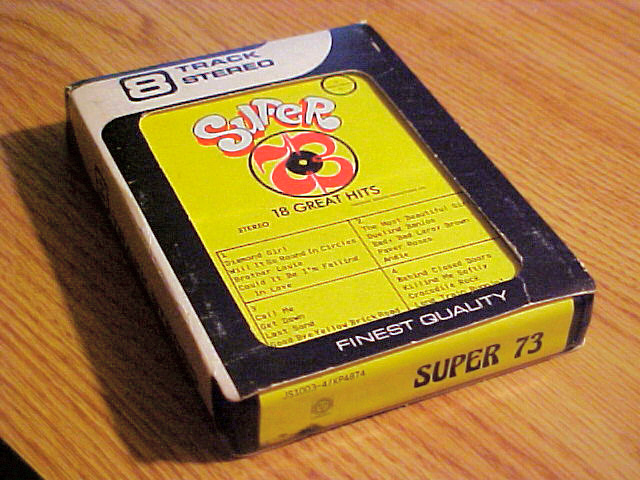 This is an example of an early bootleg mixtape. This one is from 1973